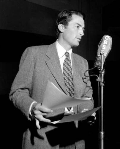 Gregory Peck during a performance on CBS Radio in 1940s.